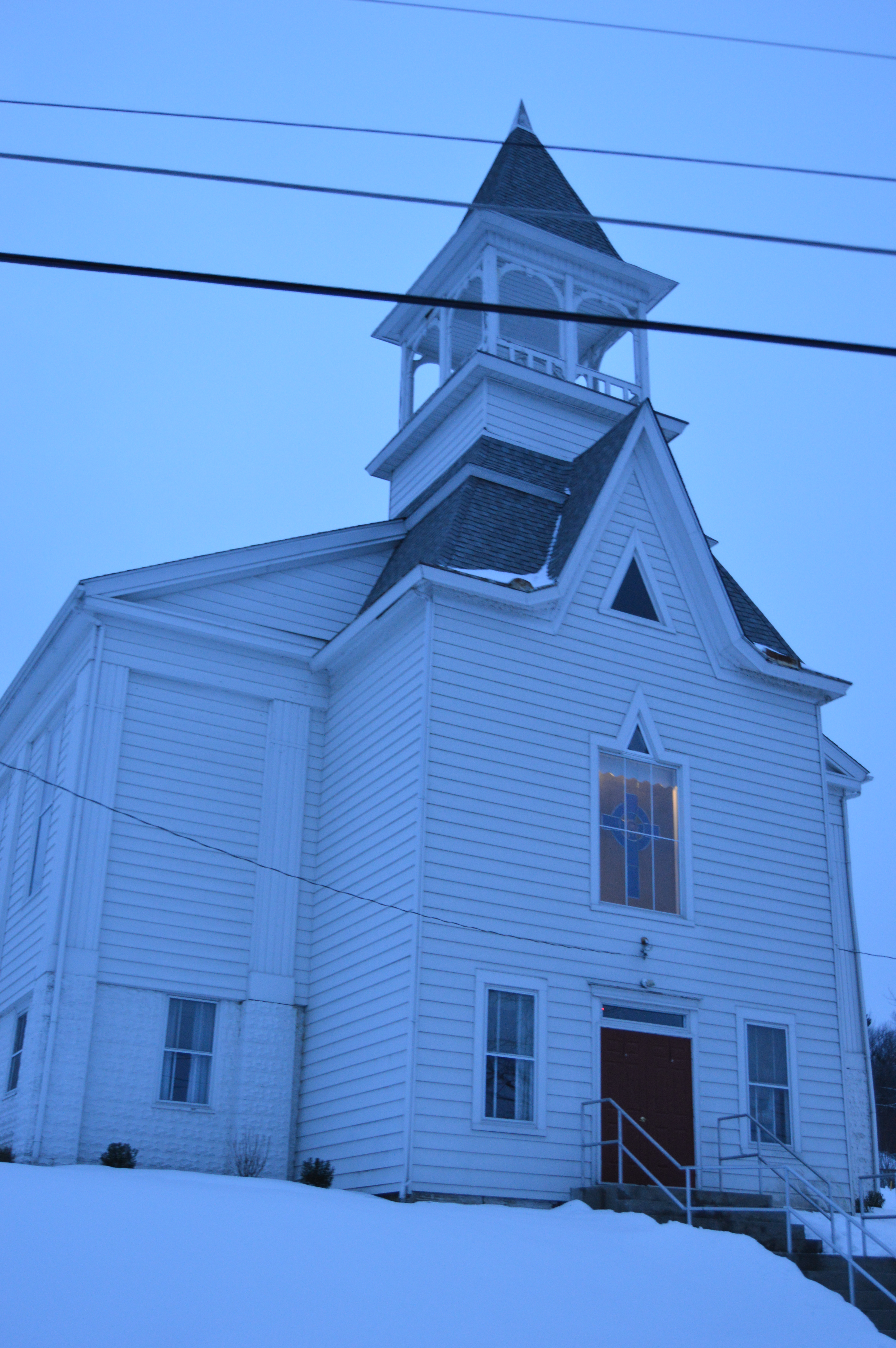 Front of the Adamsville Presbyterian Church, located at 3879 Pennsylvania Route 18 in Adamsville, Pennsylvania, United States.